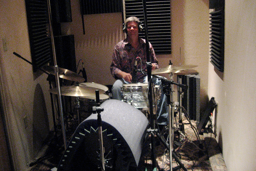 Barrett Martin with his drum kit.